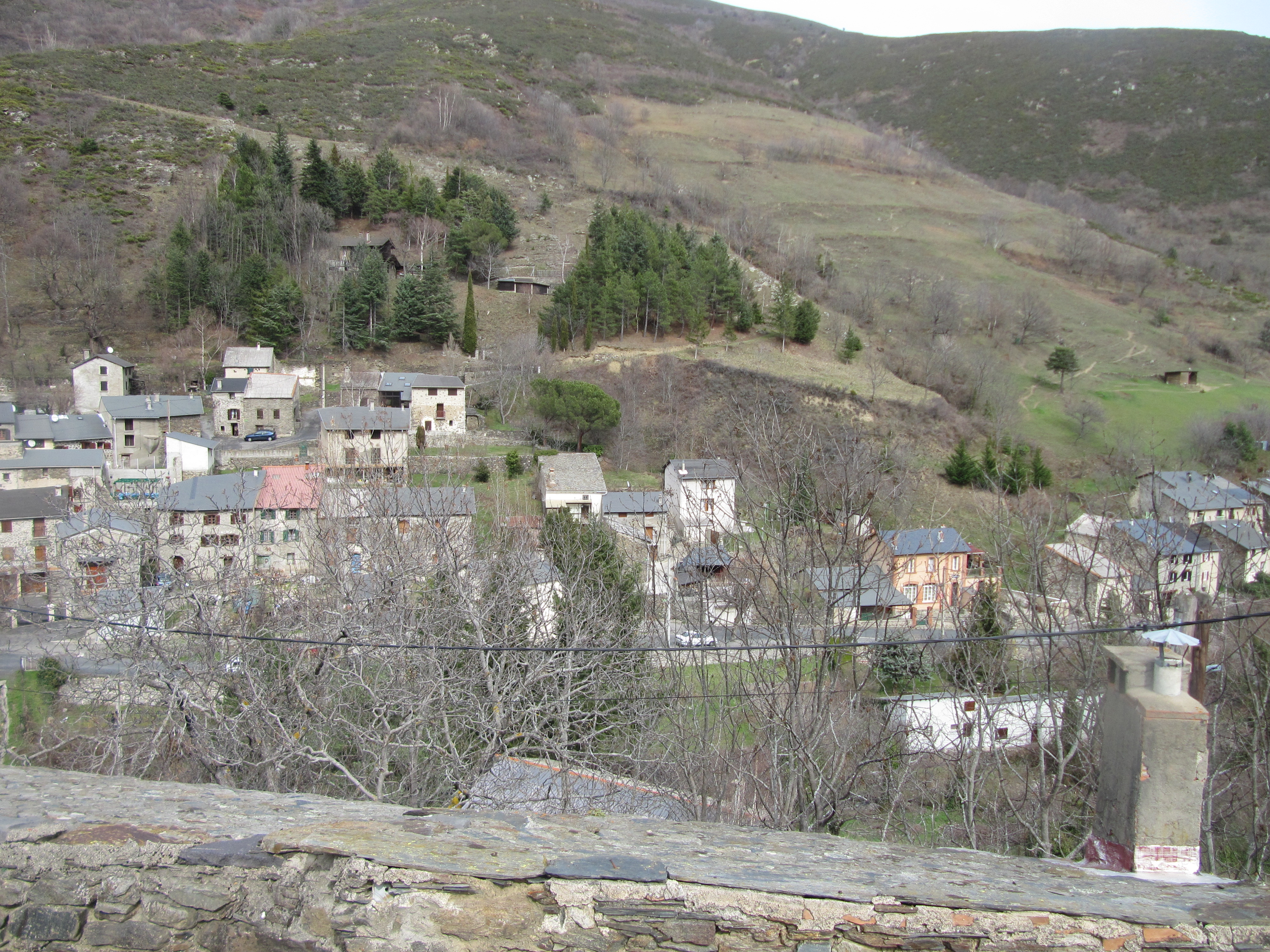 The town Urbanya